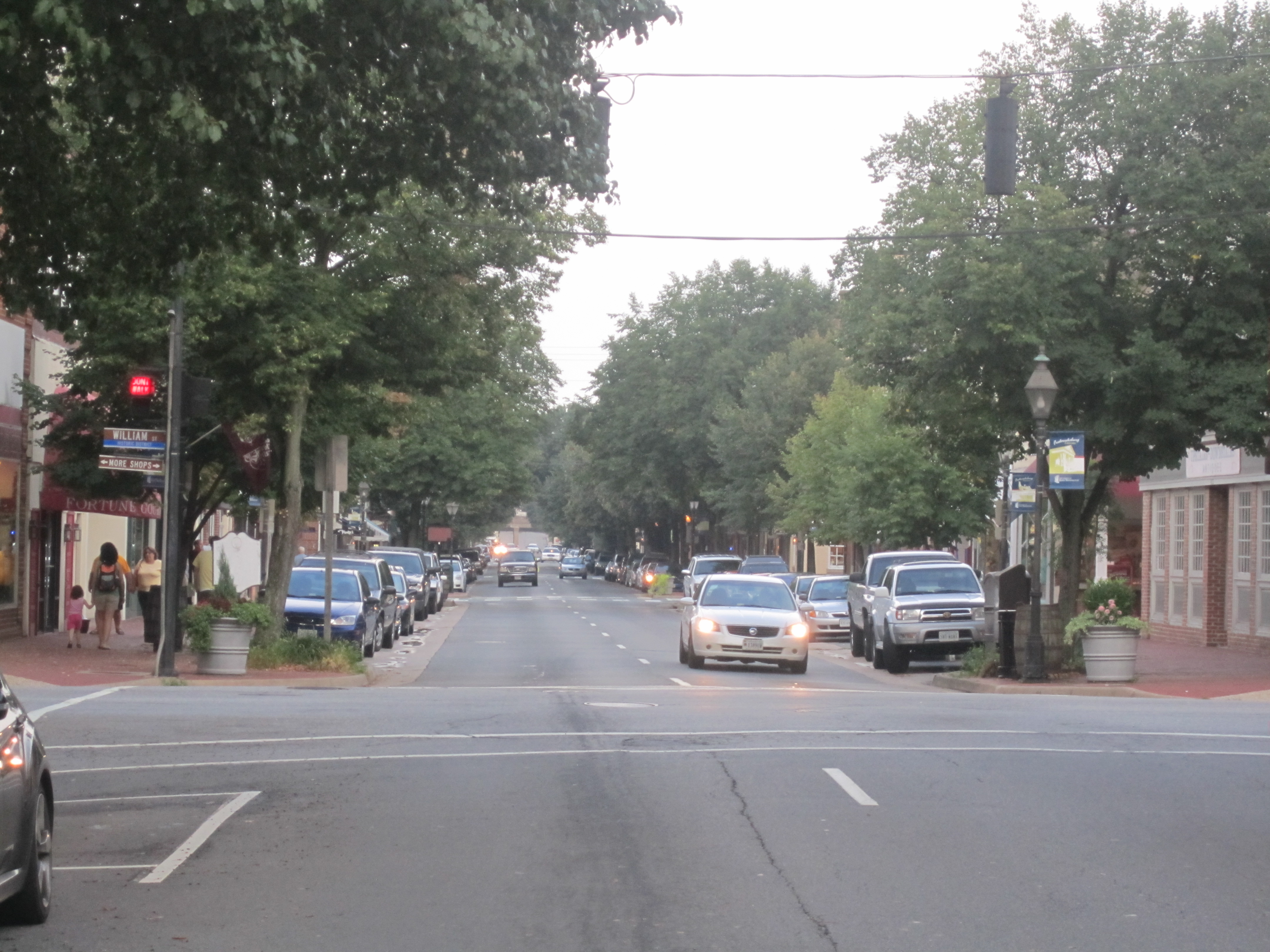 I took photo of downtown Fredericksburg, VA, with Canon camera.